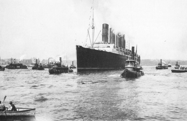 RMS Lusitania arriving in New York on her maiden voyage.